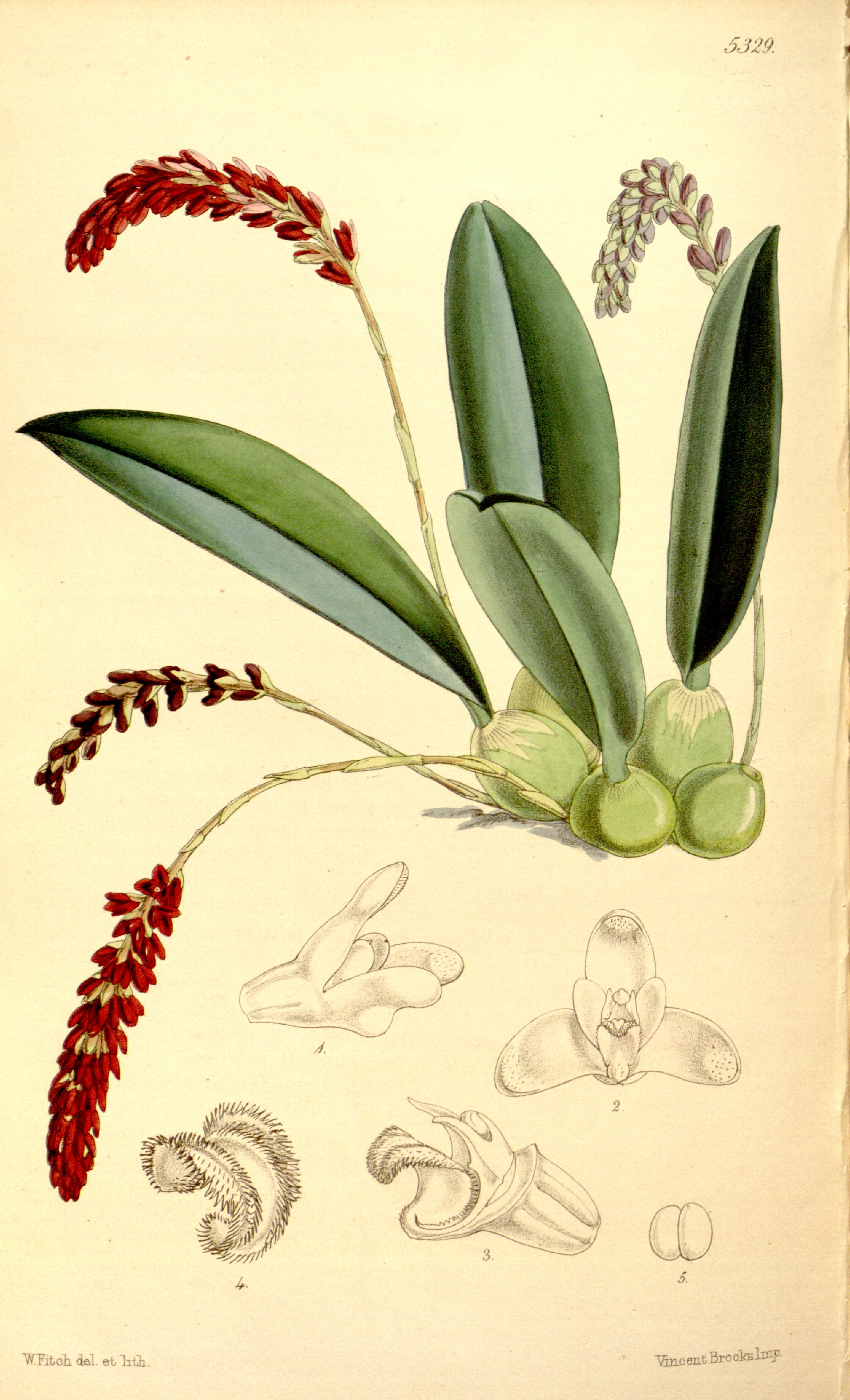 Illustration of Genyorchis pumila (as syn. Bulbophyllum pavimentatum)